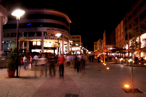 A view of the Agencies Street around 3 AM in the Summer of 2010. Şarê ıl Wakalāt fi'l Swéfiéh â saât 3 è sübeh (AM) fi séf 2010.